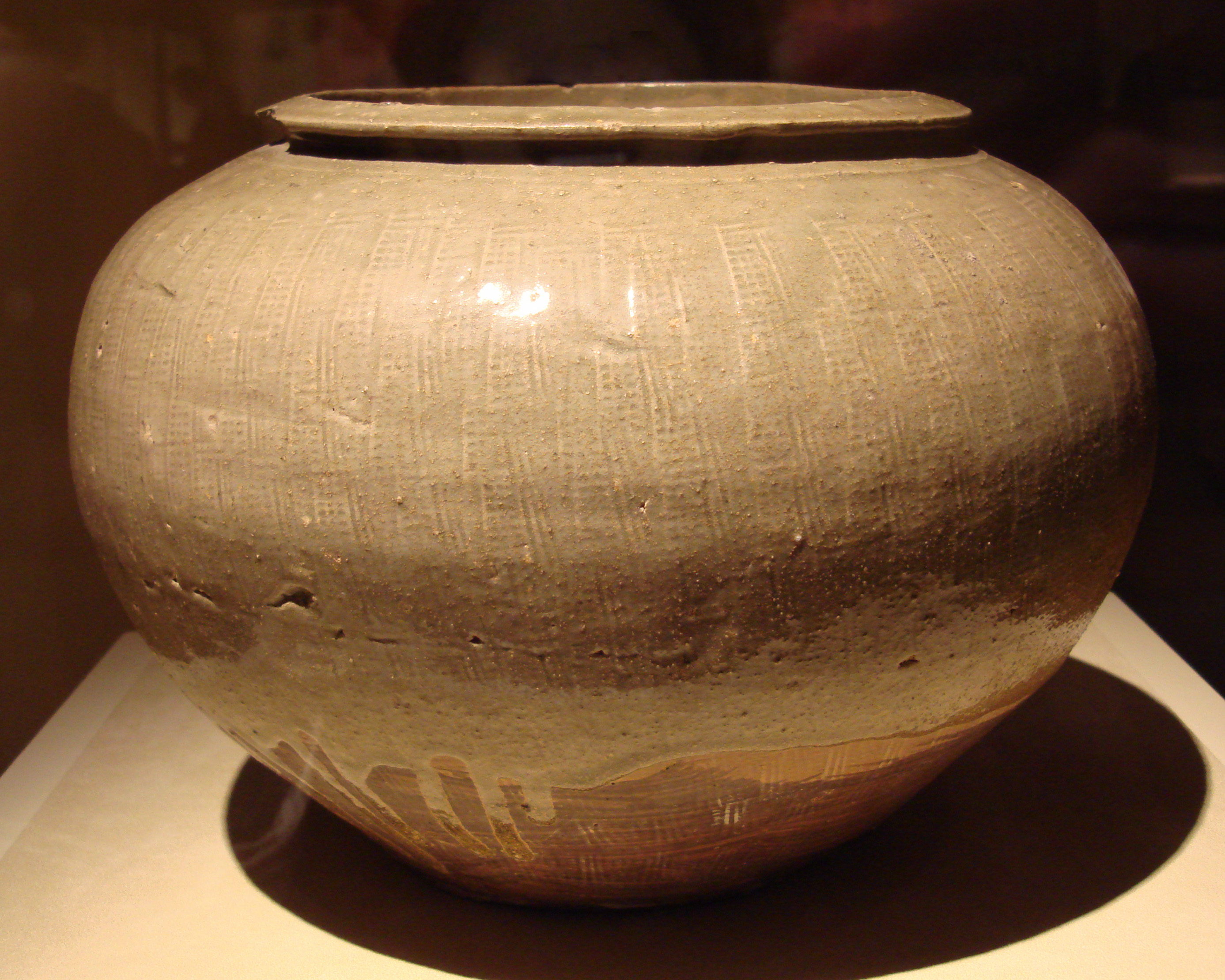 Celadon bu, a water/wine vessel Eastern Han Dynasty (A.D. 25 - 220) Excavated at Shangyu, Zhejiang Province This jar was shaped on a pottery wheel, followed by additional moulding; the bluish-green glaze is known as "celadon" in the West. The surface is solid and dense with a low water absorption rate.